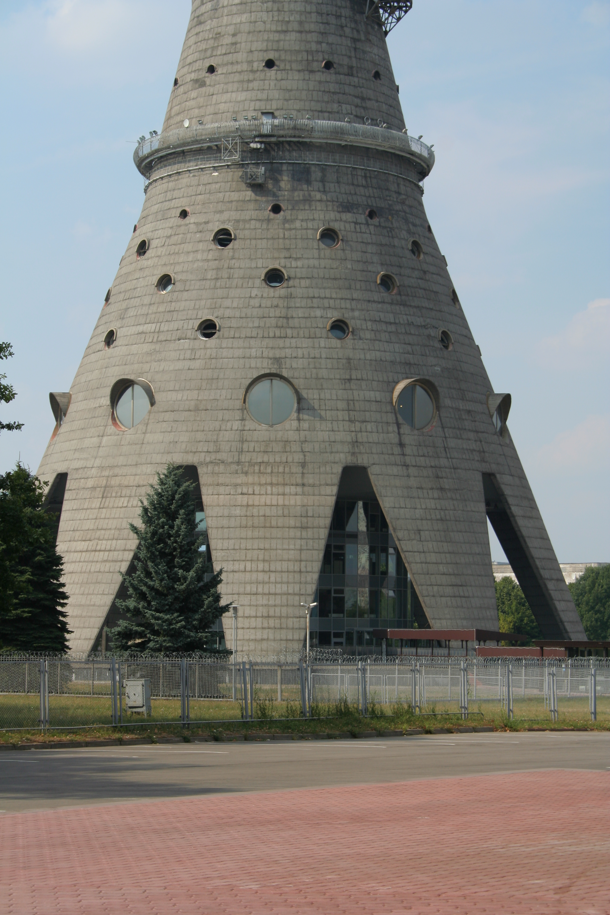 The Ostankino TV tower in Moscow. Detailed views.